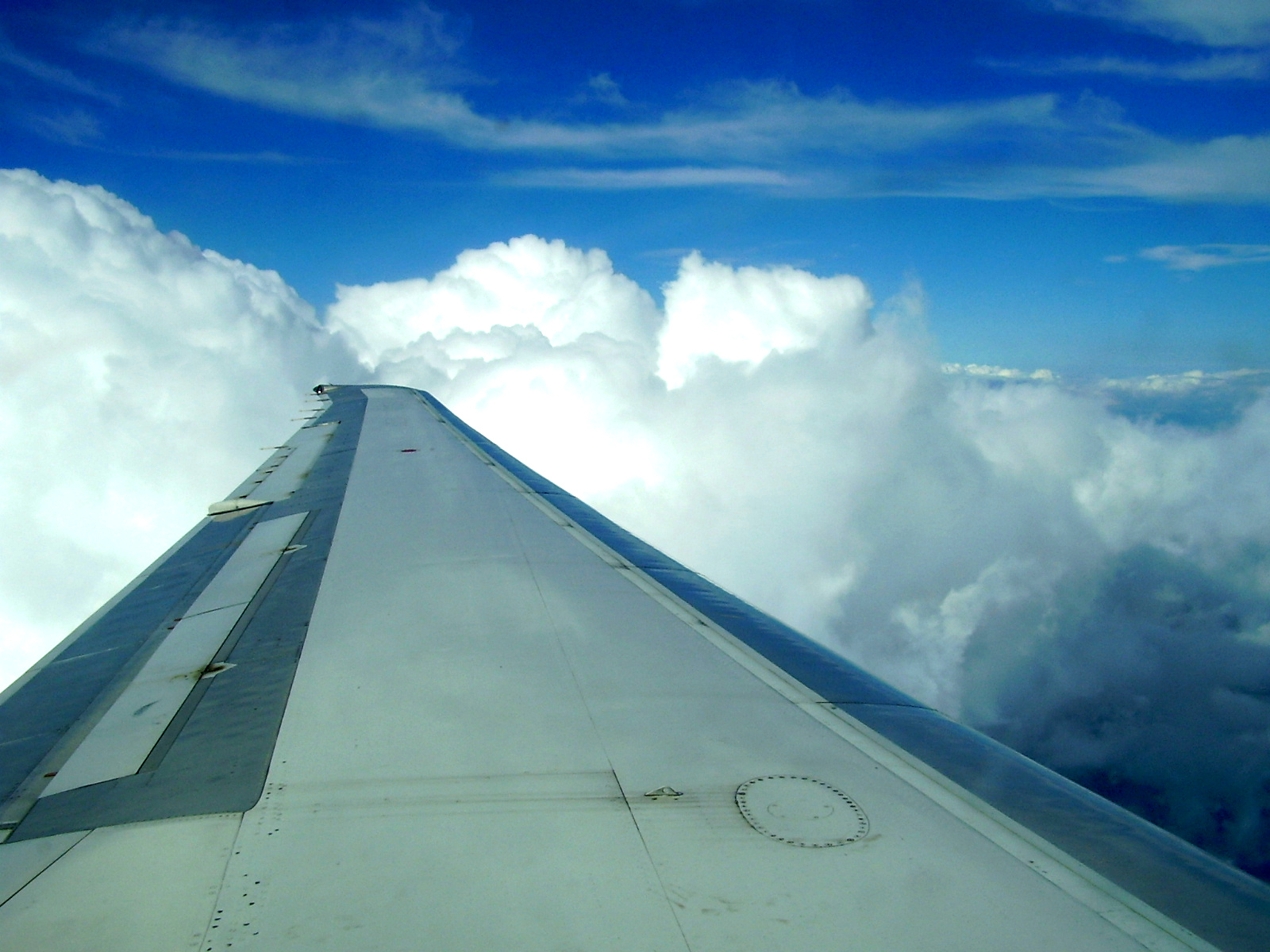 The left wing of a commercial passenger aircraft in normal flight. I don't know of which plane was, but had 2 engines on the tail, laterally mounted. The tail itself was "T" formed, with horizontal planes on top of the vertical plane.